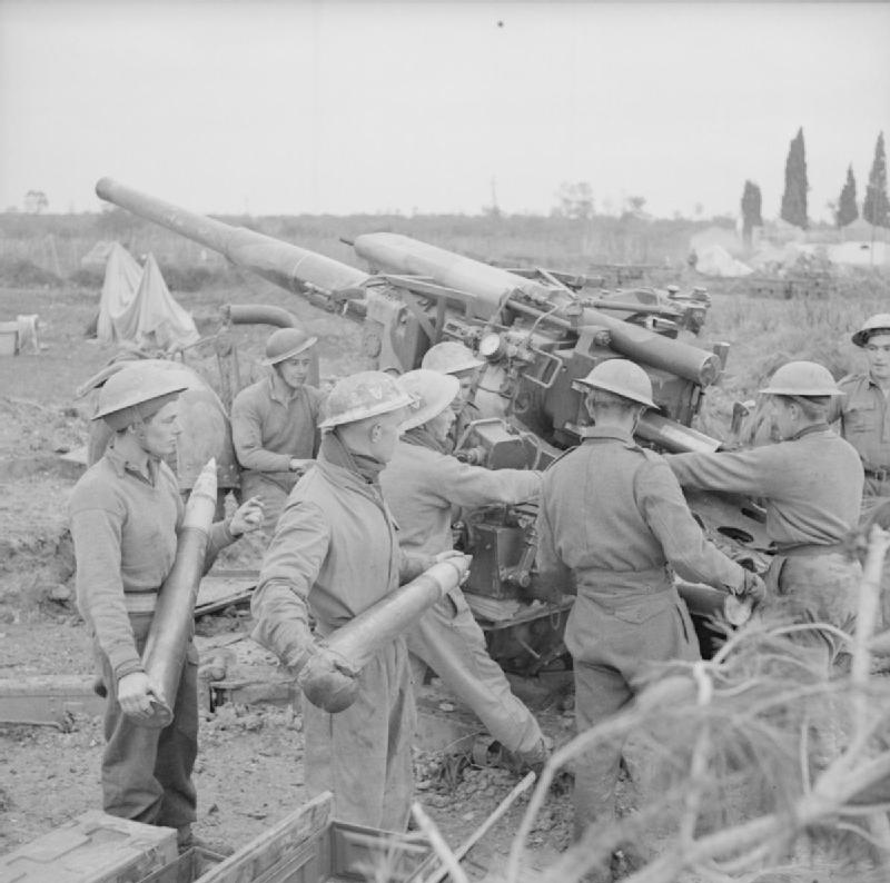 The British Army in Italy 1943 3.7-inch anti-aircraft gun of 242 Battery, 51st (London) Heavy Anti-Aircraft Regiment in action in the field artillery role, 15 December 1943.